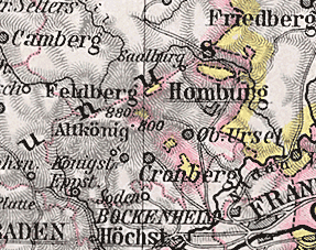 Detail from a map of Hesse.